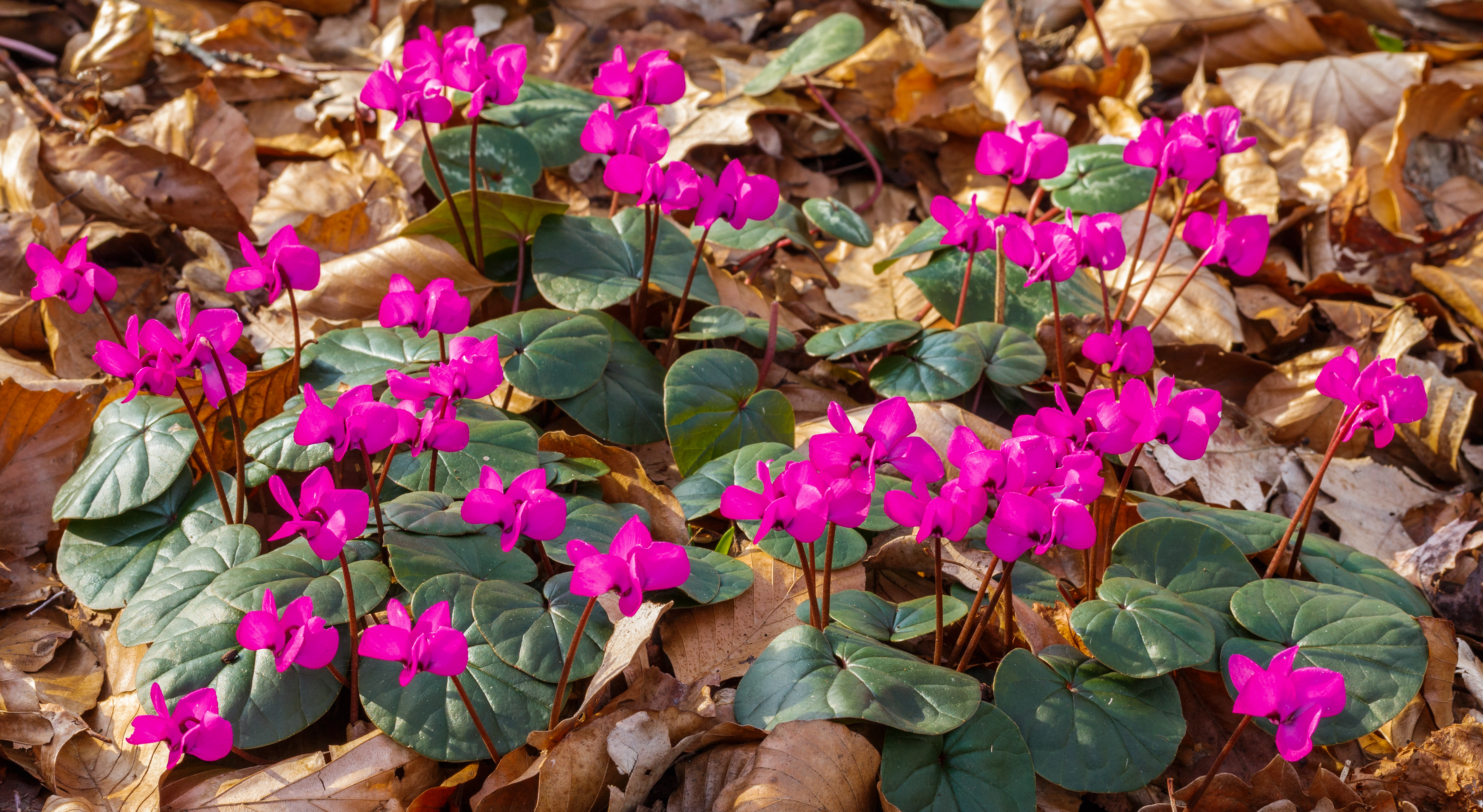 Cyclamen coum. Between fallen leaves.